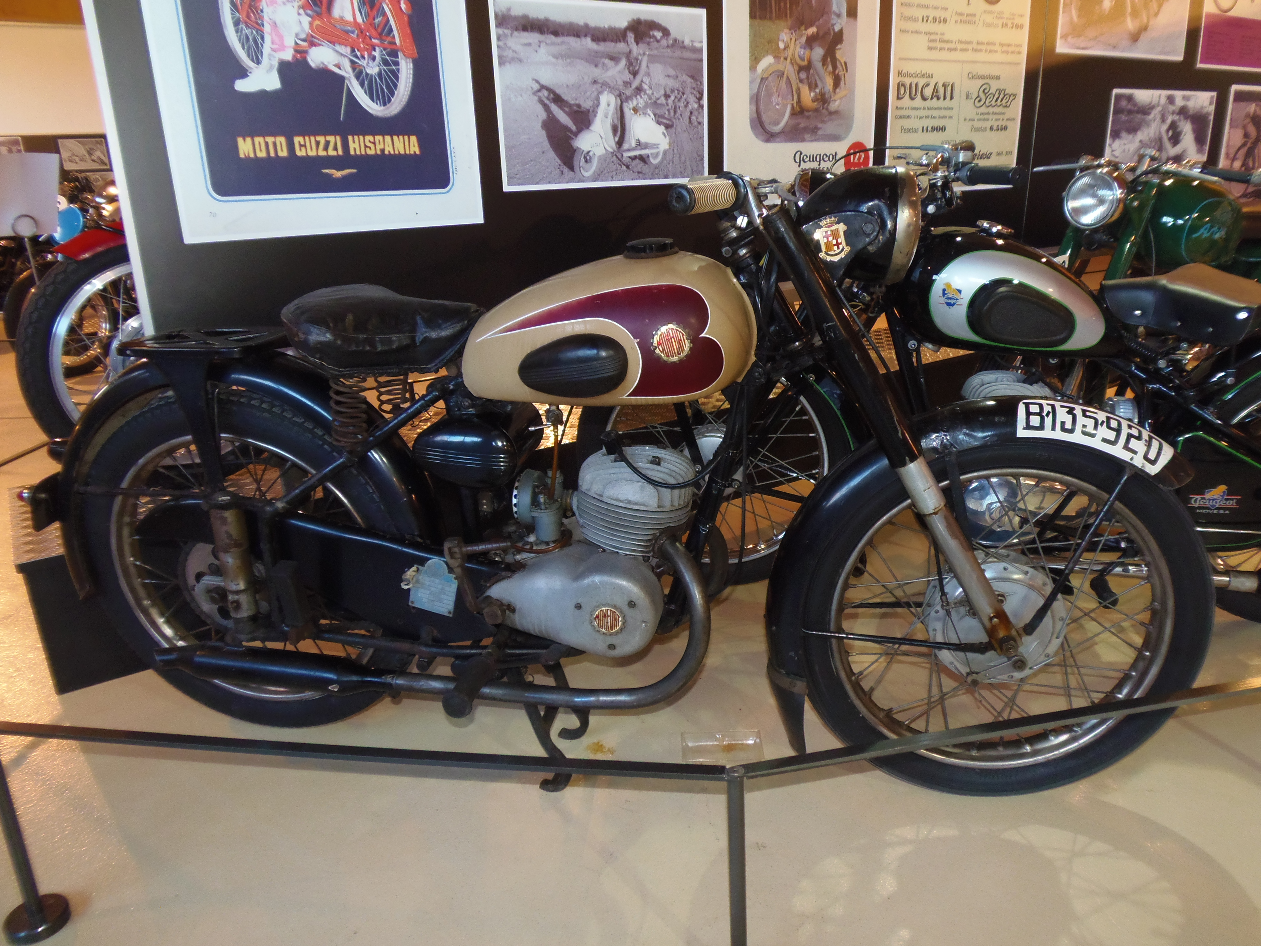 Monfort 125cc (1957)